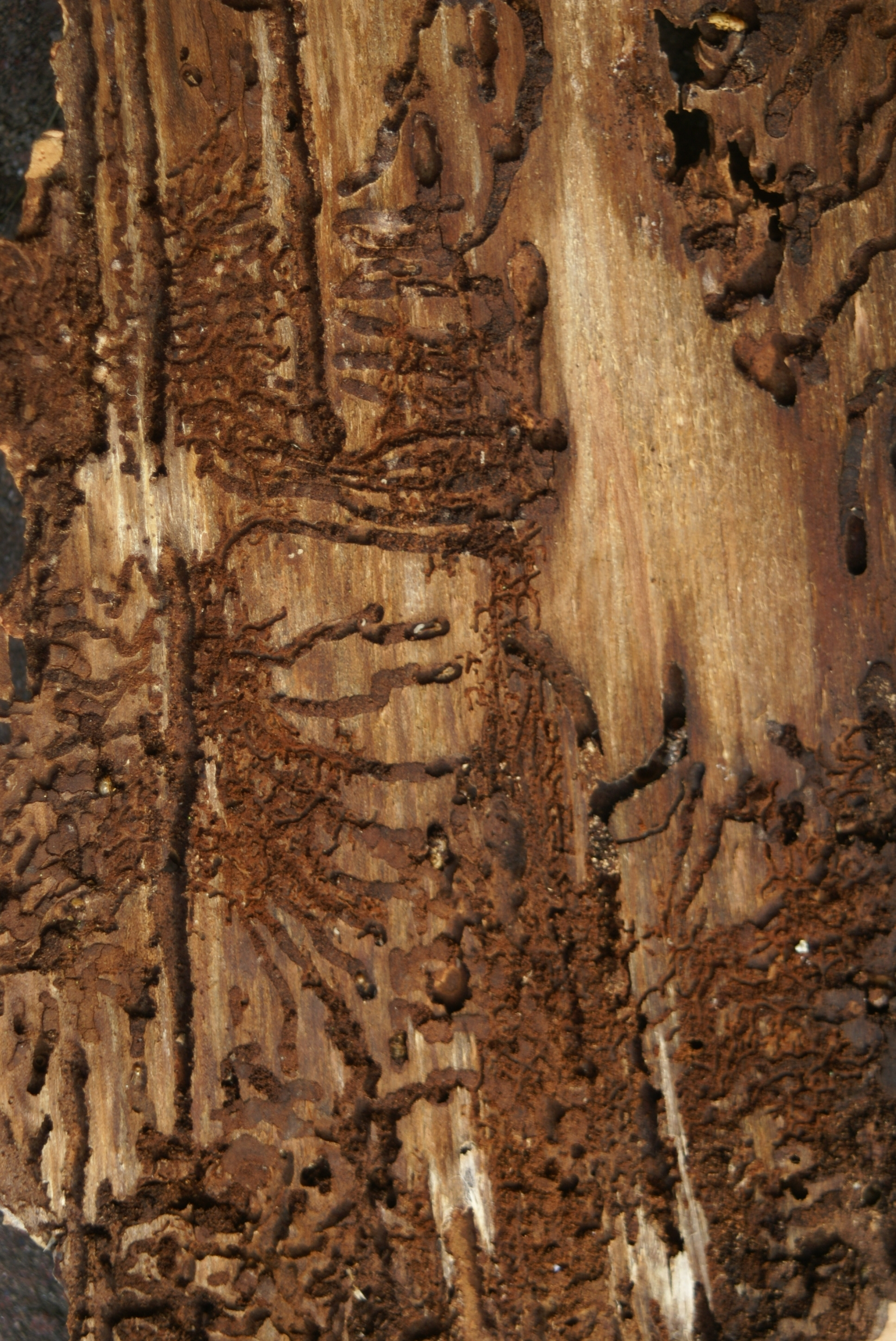 Crypturgus_pusillus_Galleries_near Ips typographus Galleries